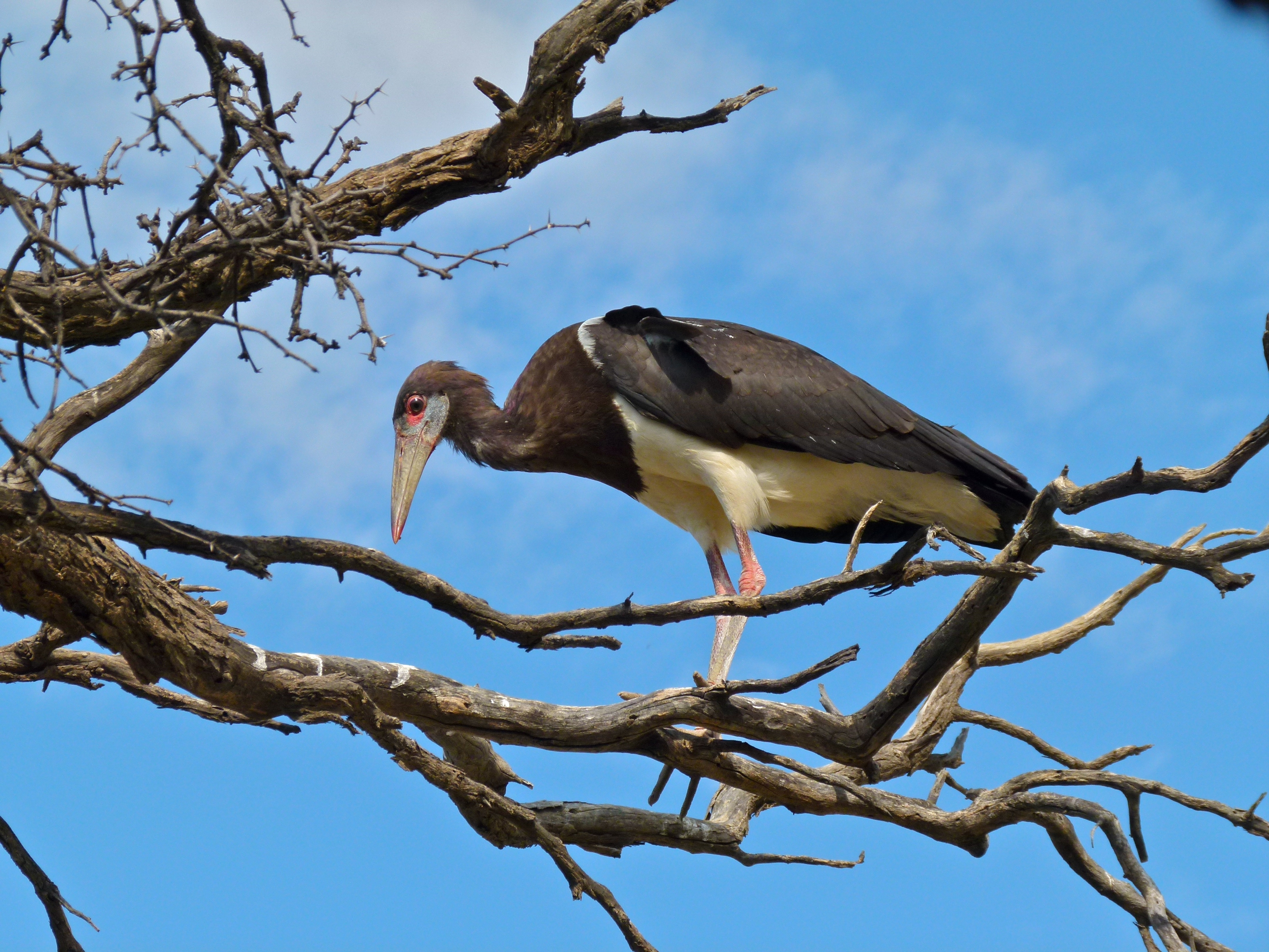 Nossob Water Hole, Kgalagadi Transfrontier Park, SOUTH AFRICA